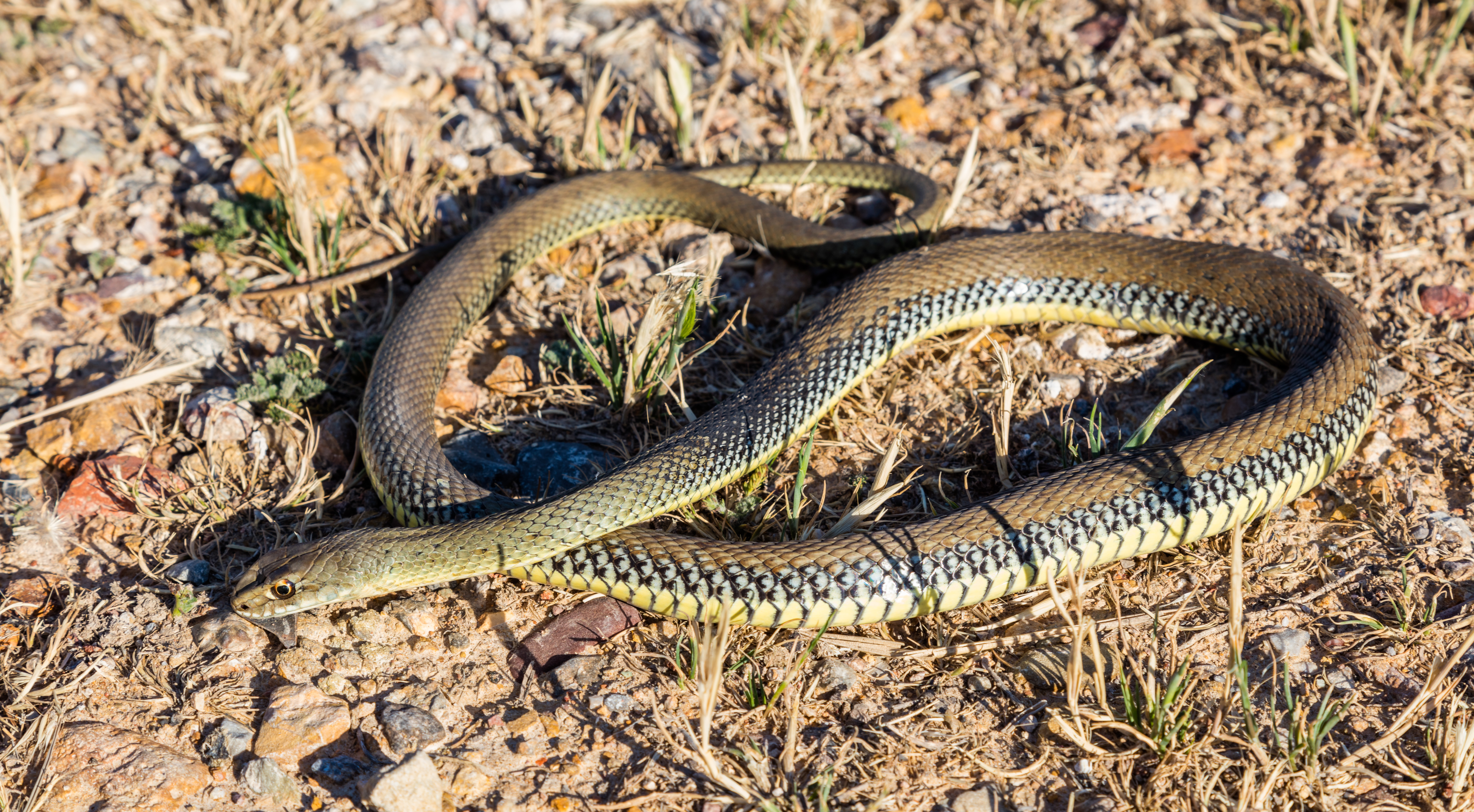 Montpellier snake (Malpolon monspessulanus), Nigüella, Zaragoza, Spain